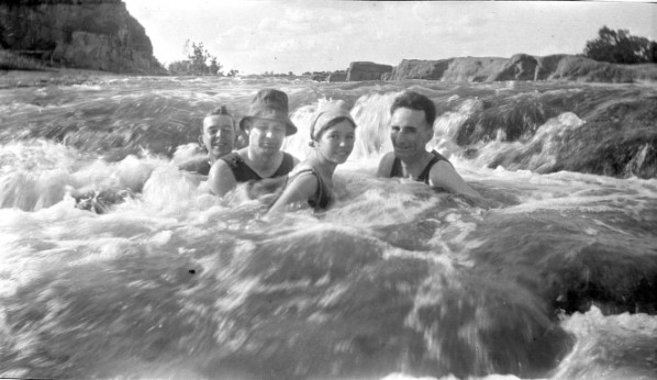 A group of people sitting in the middle of river rapids.